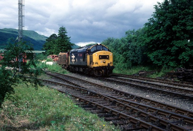 37408 shunts the logs at Crianlarich Lower When timber was loaded onto rail at Crianlarich Lower 37408 shunts the log train.